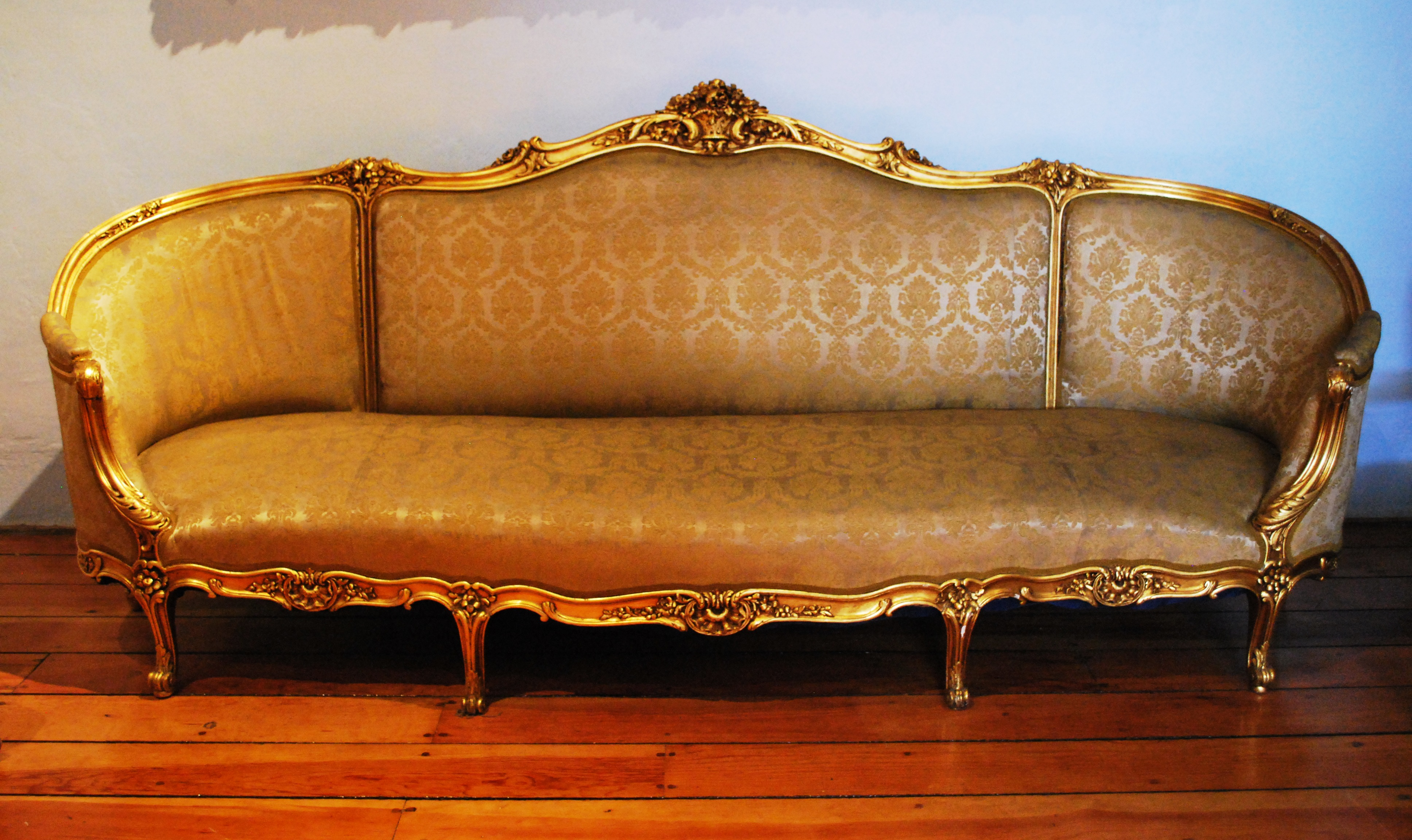 19th century 3-seat sofa in the music room of the Museum of the City of Mexico in the historic center of Mexico City